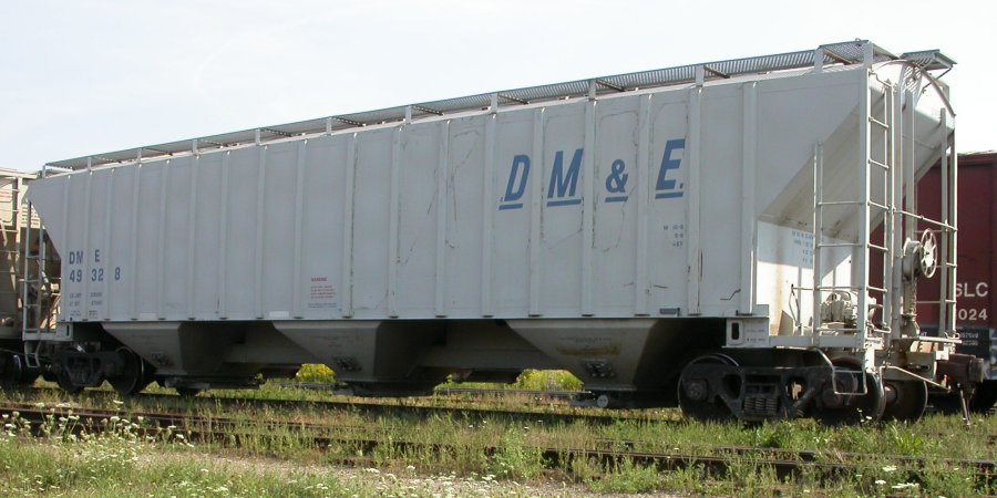 DME 49328, taken by User:JYolkowski.